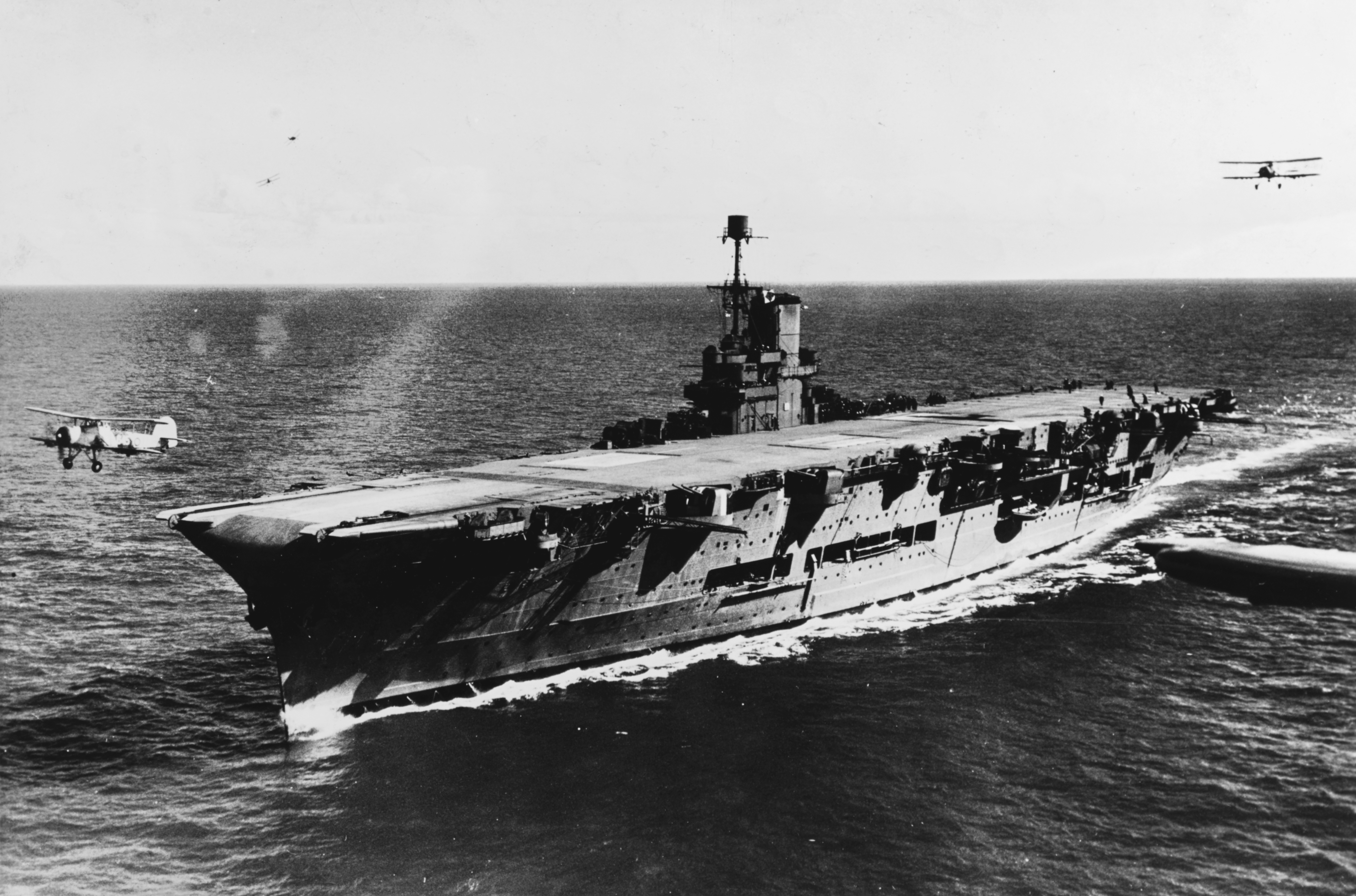 The British Royal Navy aircraft carrier HMS Ark Royal (91) photographed circa 1939. A Fairey Swordfish aircraft is taking off as another approaches from astern. Two are visible in the background.